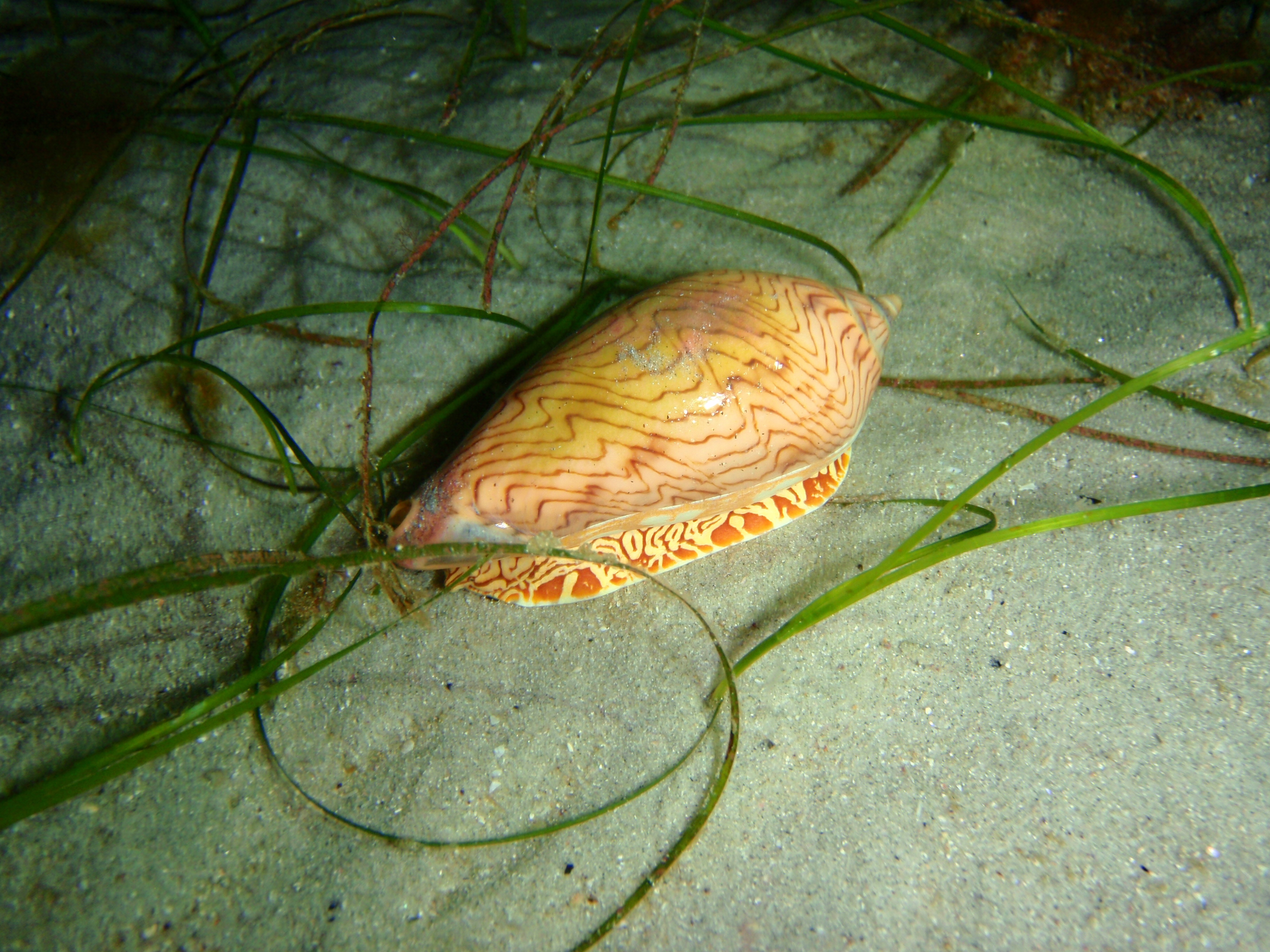 Wavy volute, Amoria undulata, at Bicheno, Tasmania